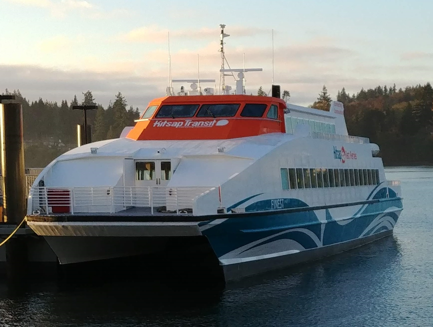 Fast ferry MV Finest at her dock in Kingston, Washington, prior to beginning of public service in Washington